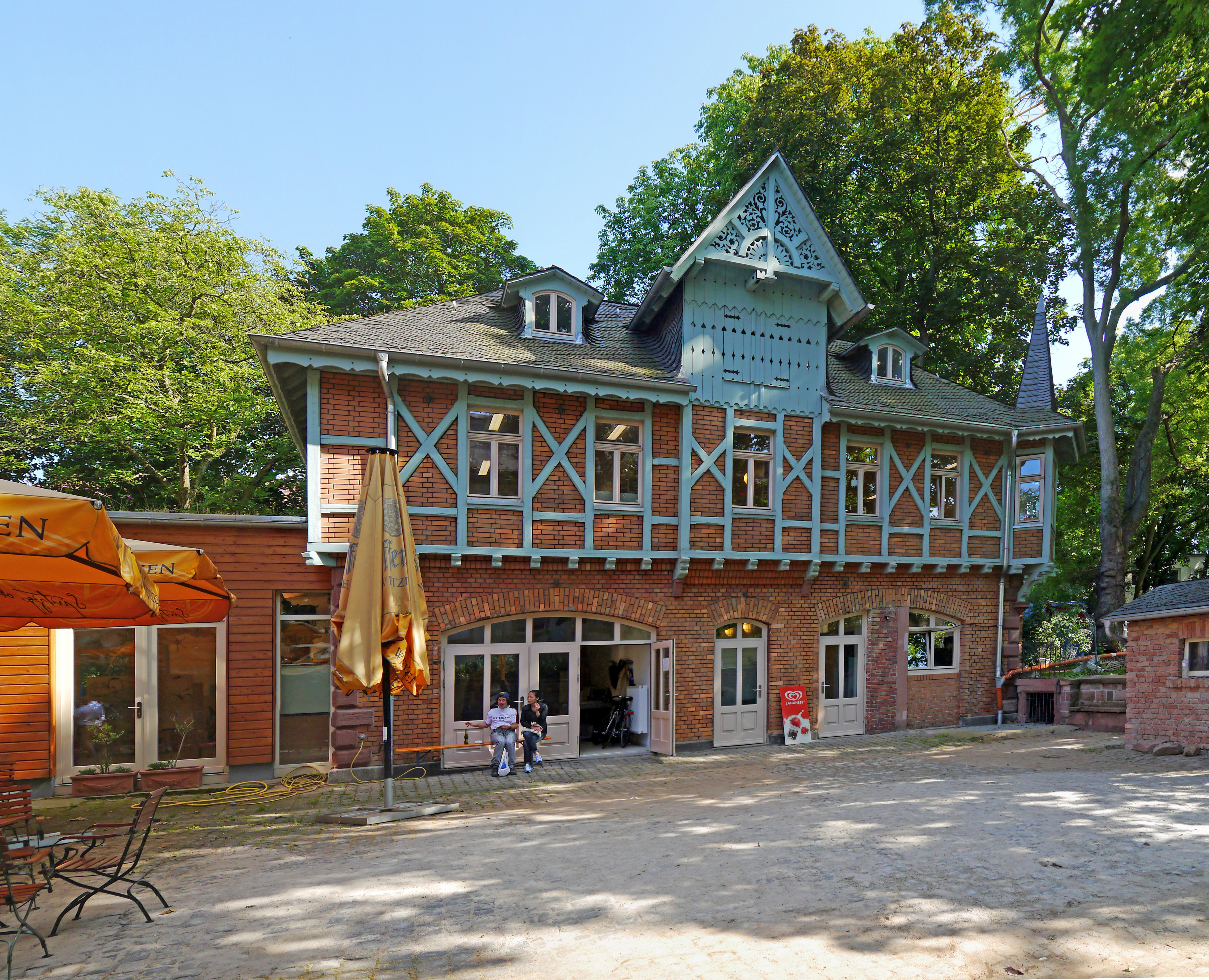 Atelier Goldstein, 2012 in Frankfurt-Sachsenhausen, Mittlerer Hasenpfad 5, Germany.